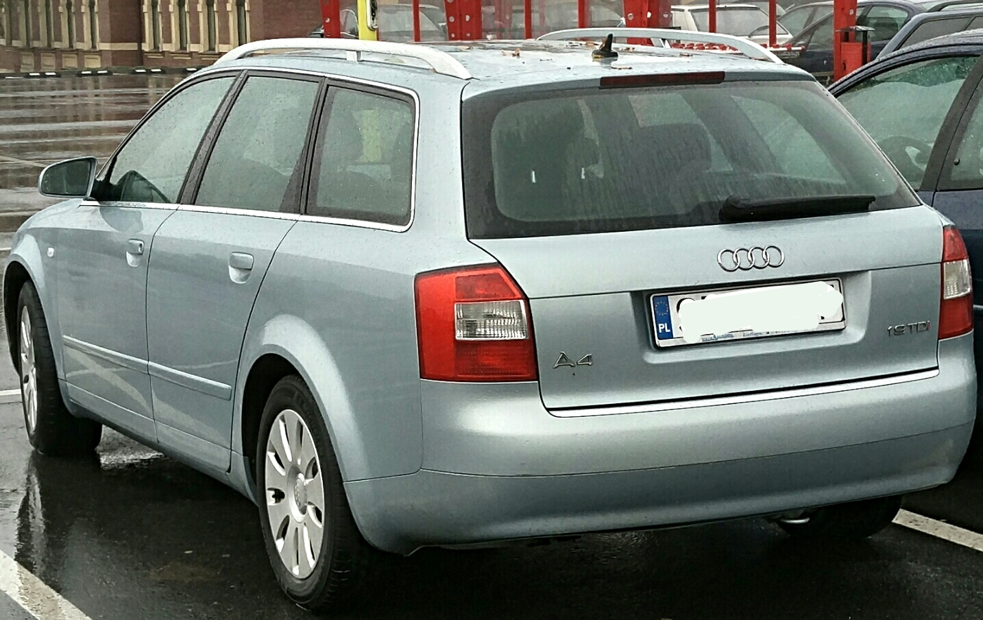 A4 Avant B6 in Poland